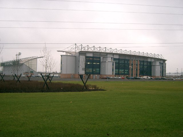 The Falkirk Stadium.